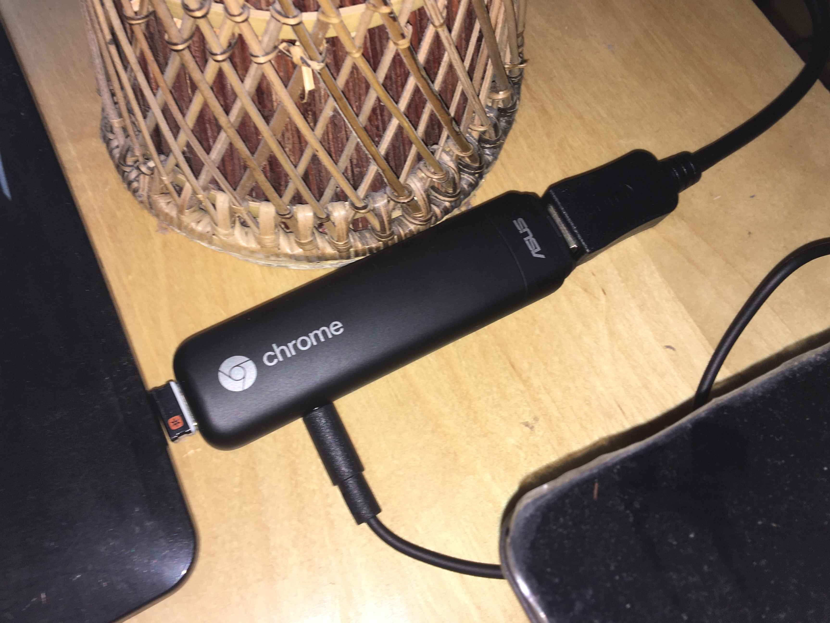 Asus Chromebit behind the TV.